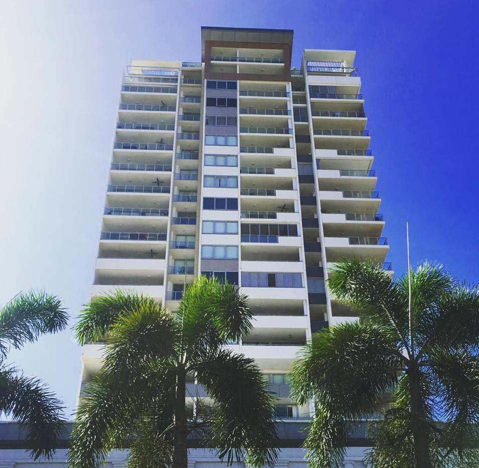 The "Dalgety Apartments" in the Townsville Central Business District.